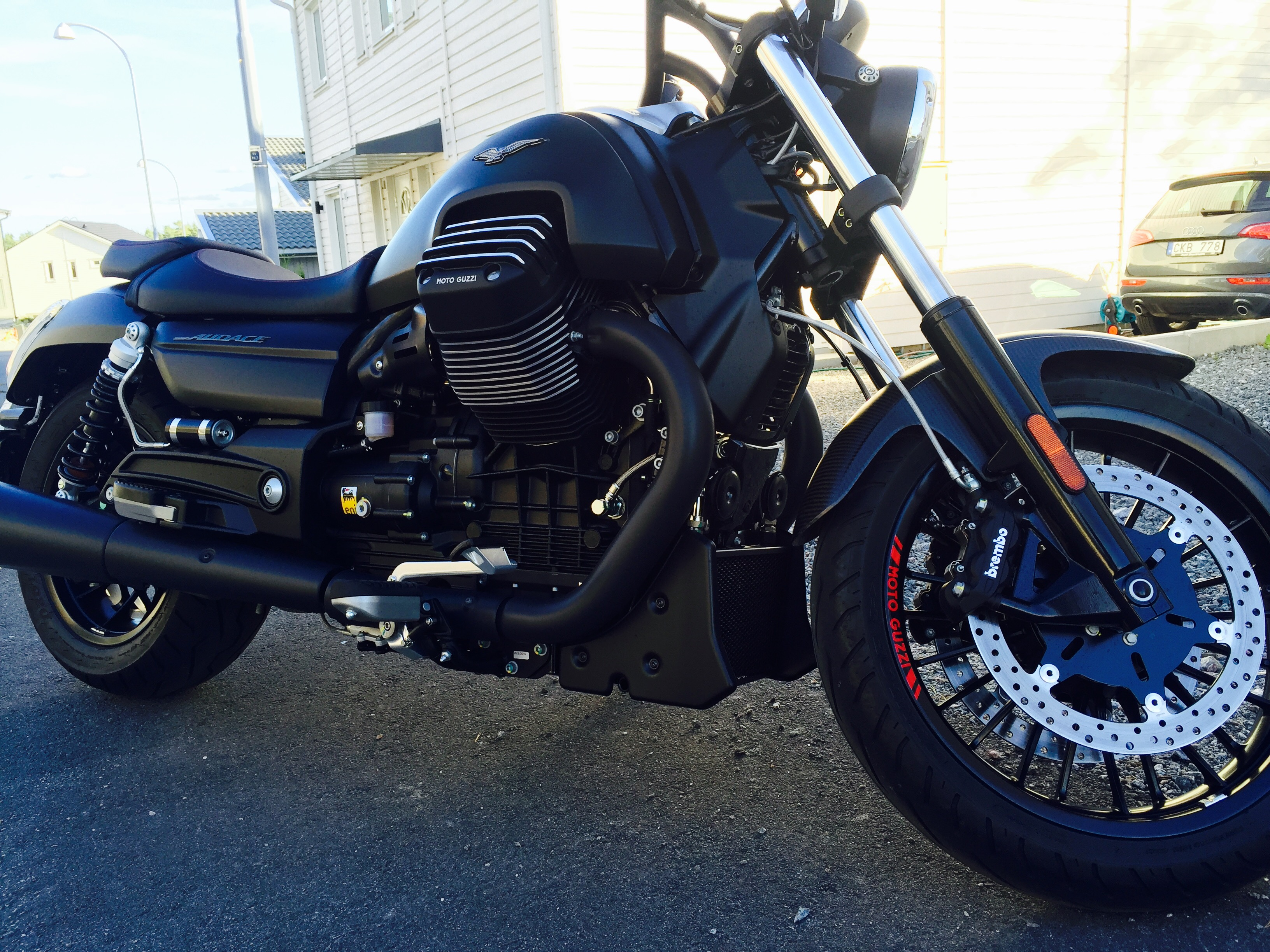 Moto Guzzi Audace 2015